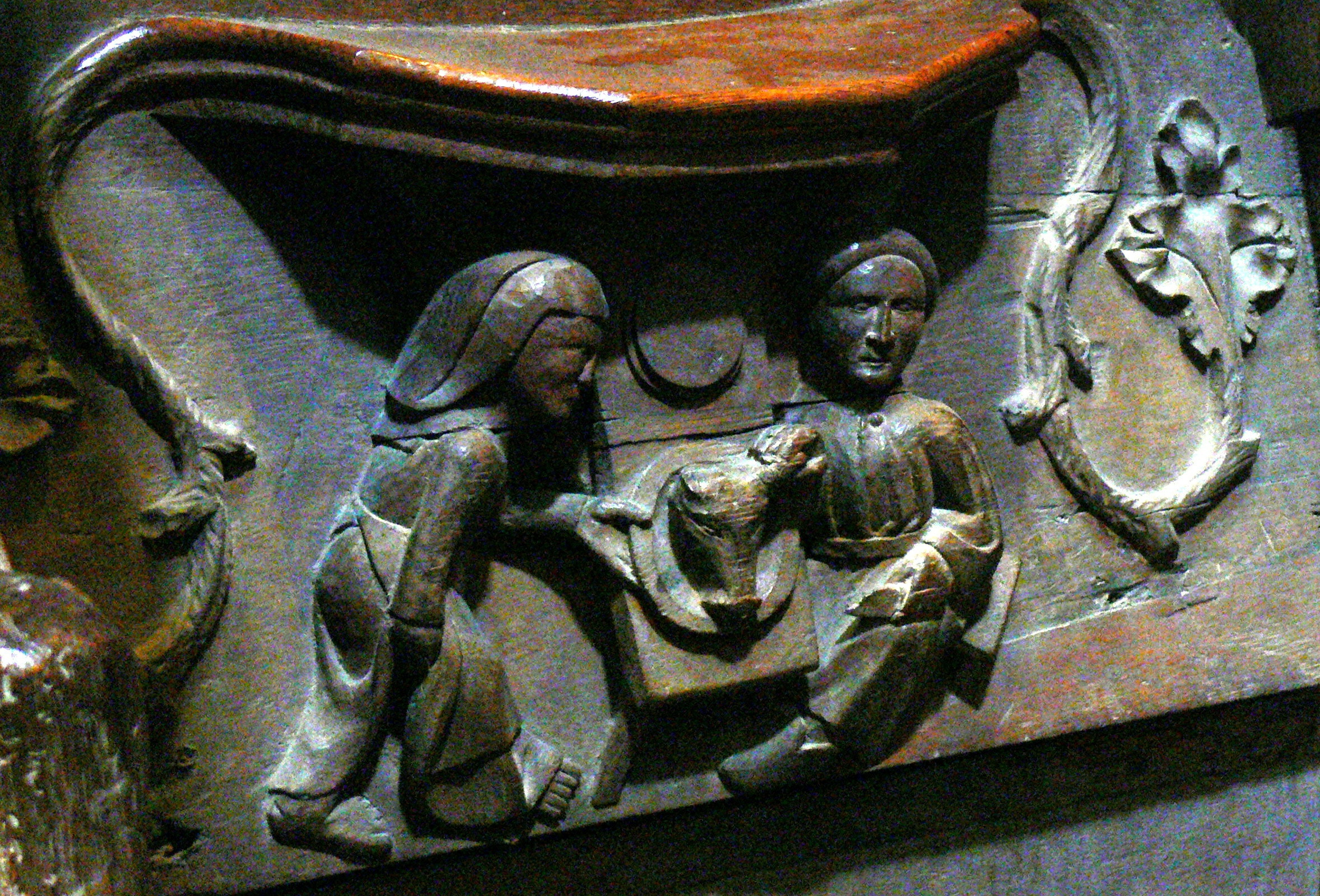 St.David's ( Wales ). Cathedral: Misericord ( 15th century ) - Merchant getting his meal, a pig's head, served by a female servant.